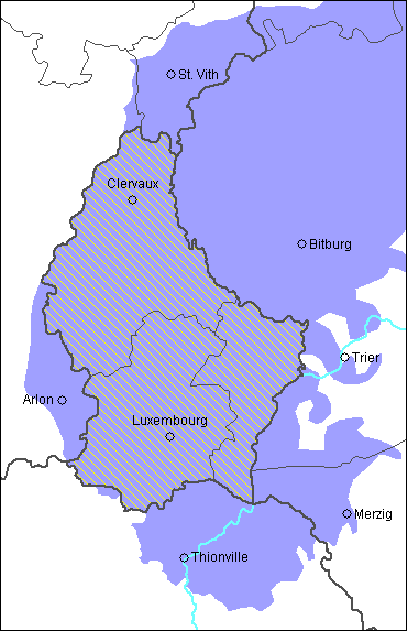 Outline of the Luxembourgish language and neighbouring Moselfrankish dialects